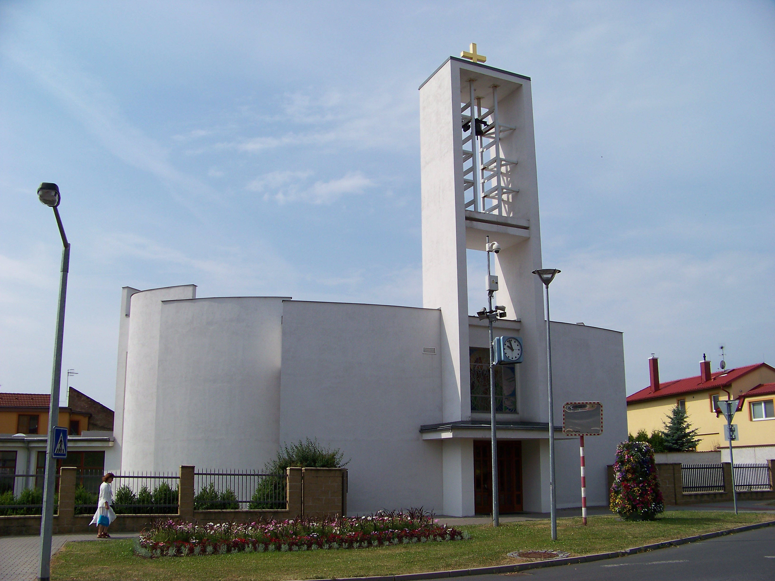 Prague-Kbely, Czech Republic. Železnobrodská street, church of Saint Elisabeth.